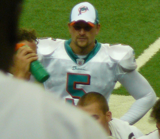 If used somewhere other than Wikipedia, Nelson, by name.